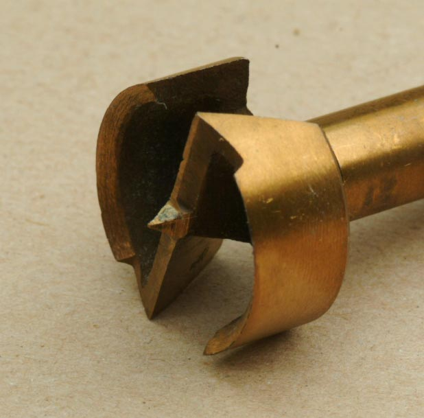 Forstner drill bit cutting head. This cuts a 25 mm diameter hole in wood. This is a low-cost bit manufactured in about 2003. Image made in the UK in June 2005.